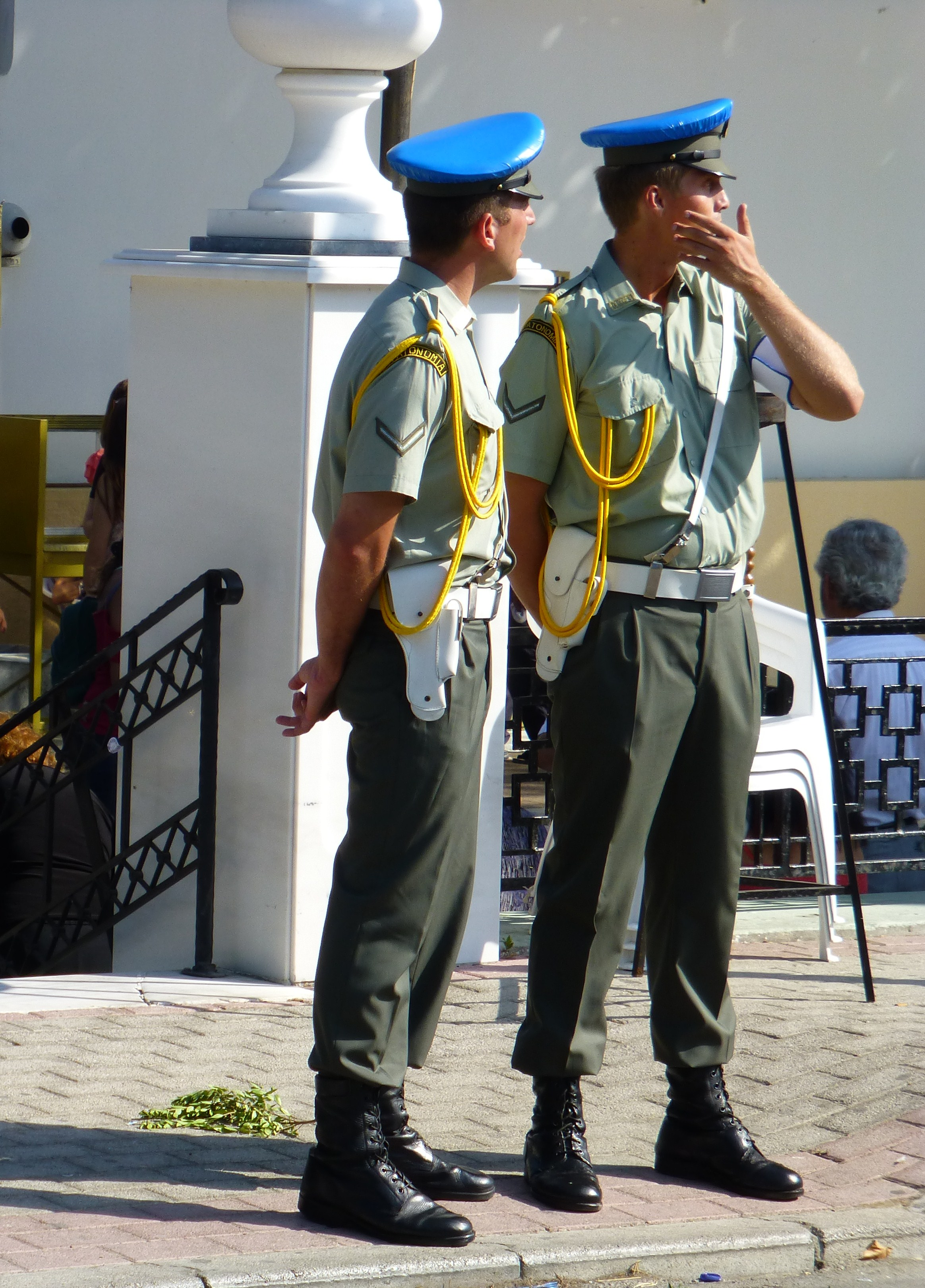 Festival of the Virgin Mary.Kremasti, Rhodes, Greece August 2013